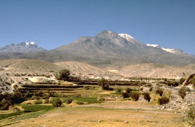 The Nevado de Chachani volcanic complex, seen here from the SW near the village of Yura, consists of a 360 sq km group of Pleistocene lava domes, a stratovolcano, and a shield volcano. The central, 6057-m-high Nevado Chachani complex contains multiple vents along an arcuate line, including a well-defined summit crater at the western end. Cerro La Horqueta (left horizon) may represent the latest activity from Nevado Chachani, after which activity migrated to the 8-km-wide Holocene lava shield of Pampa de Palacio on the south side.